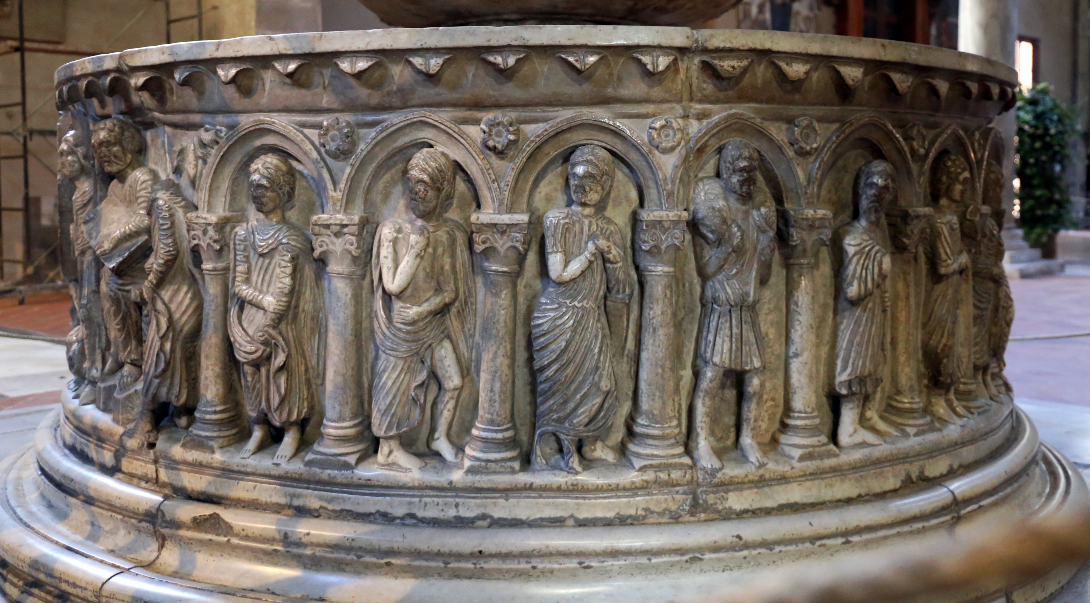 Baptismal font of San Frediano (Lucca)